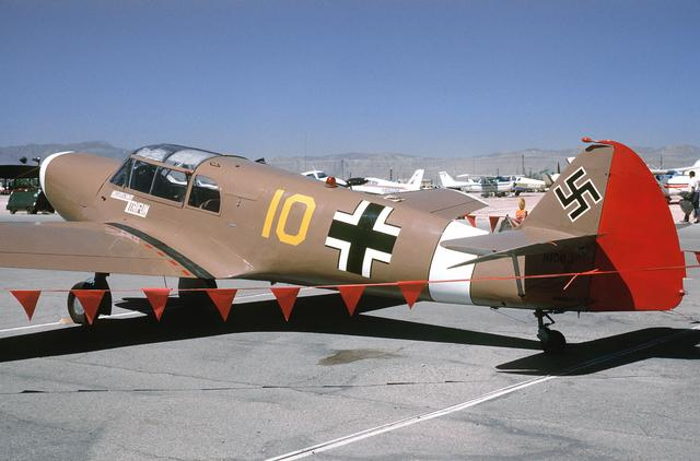 Left side view of a German Messerschmitt built ME-108 "Taifun" bomber aircraft on the flight line at McCarren Airport, Las Vegas, Nevada during the USAF Gathering of Eagles convention.